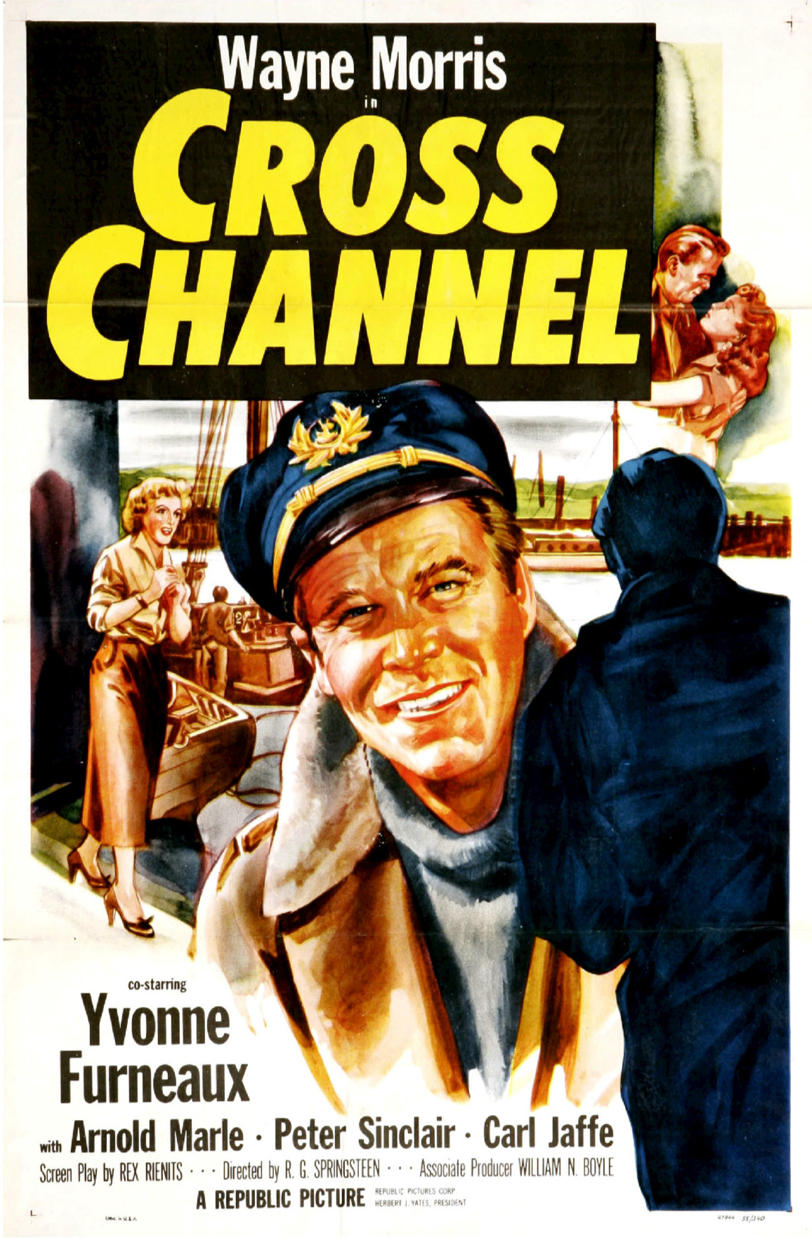 Poster for the 1955 film Cross Channel. There are no copyright marks. At bottom is Litho in USA and 47944 55/340.